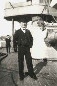 Crew member on the 40m2 Skerry cruiser SIF during the 1920 Summer Olympics